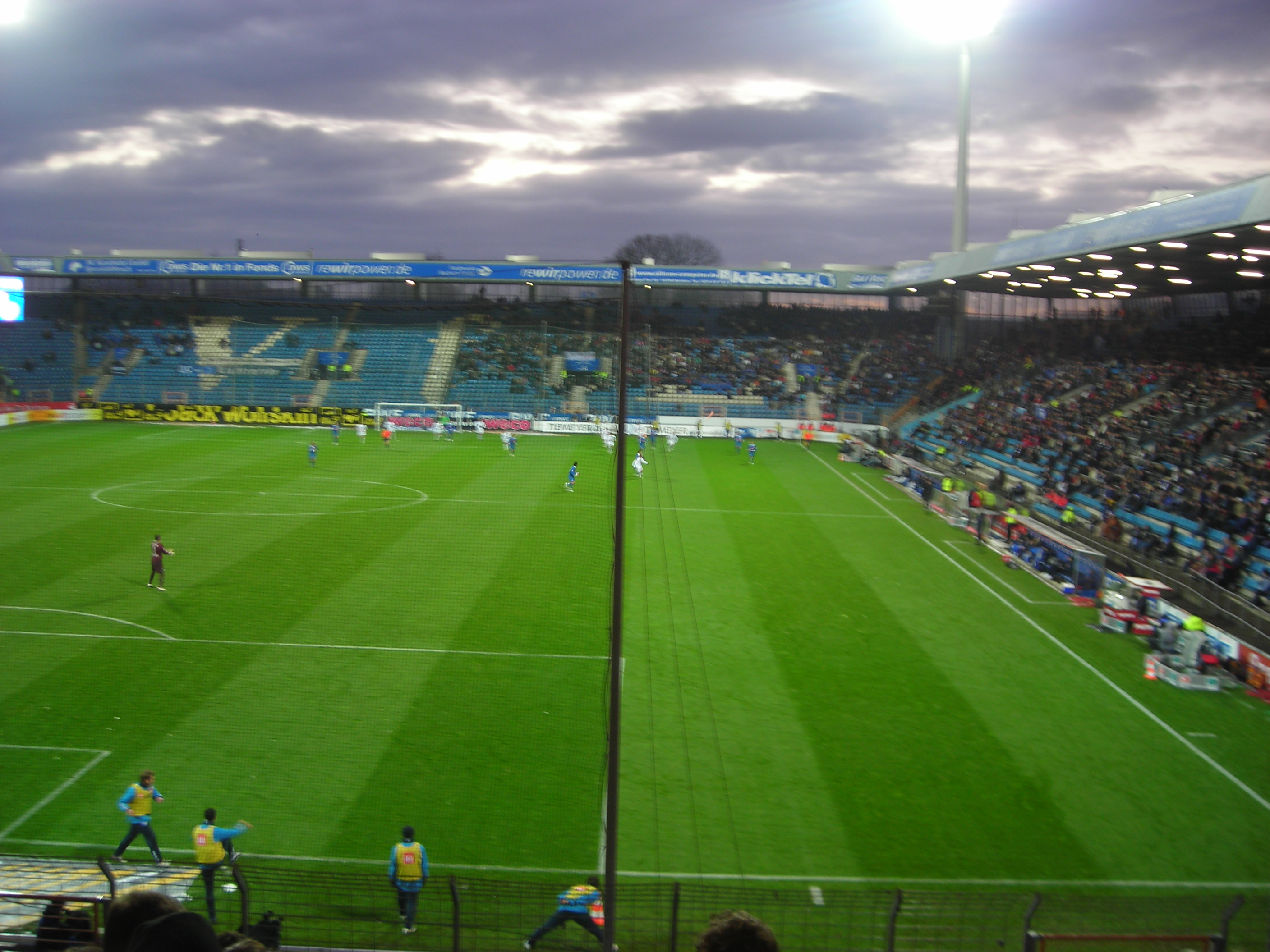 Rewir-power-stadion during the match between VfL Bochum and Hertha BSC Berlin on 22 november 2008.